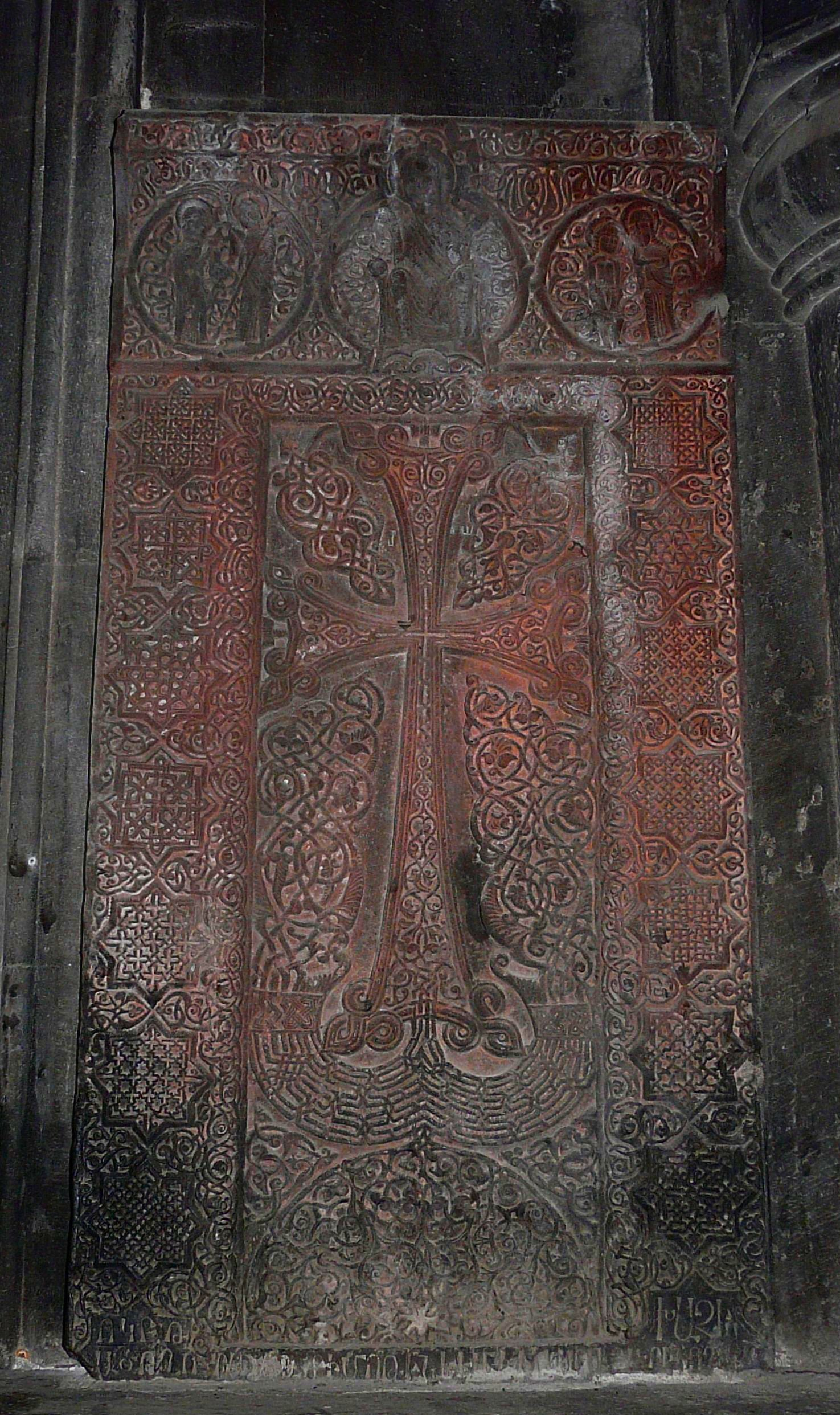 Khachkar by Timot and Mkhitar, 1213, gavit, Geghard, Armenia.